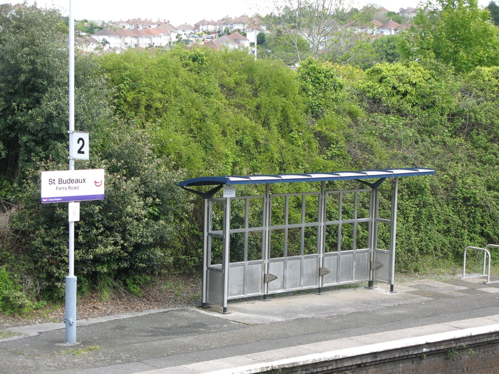 The eastbound platform of St Budeaux Ferry Road railway station in Devon, England.